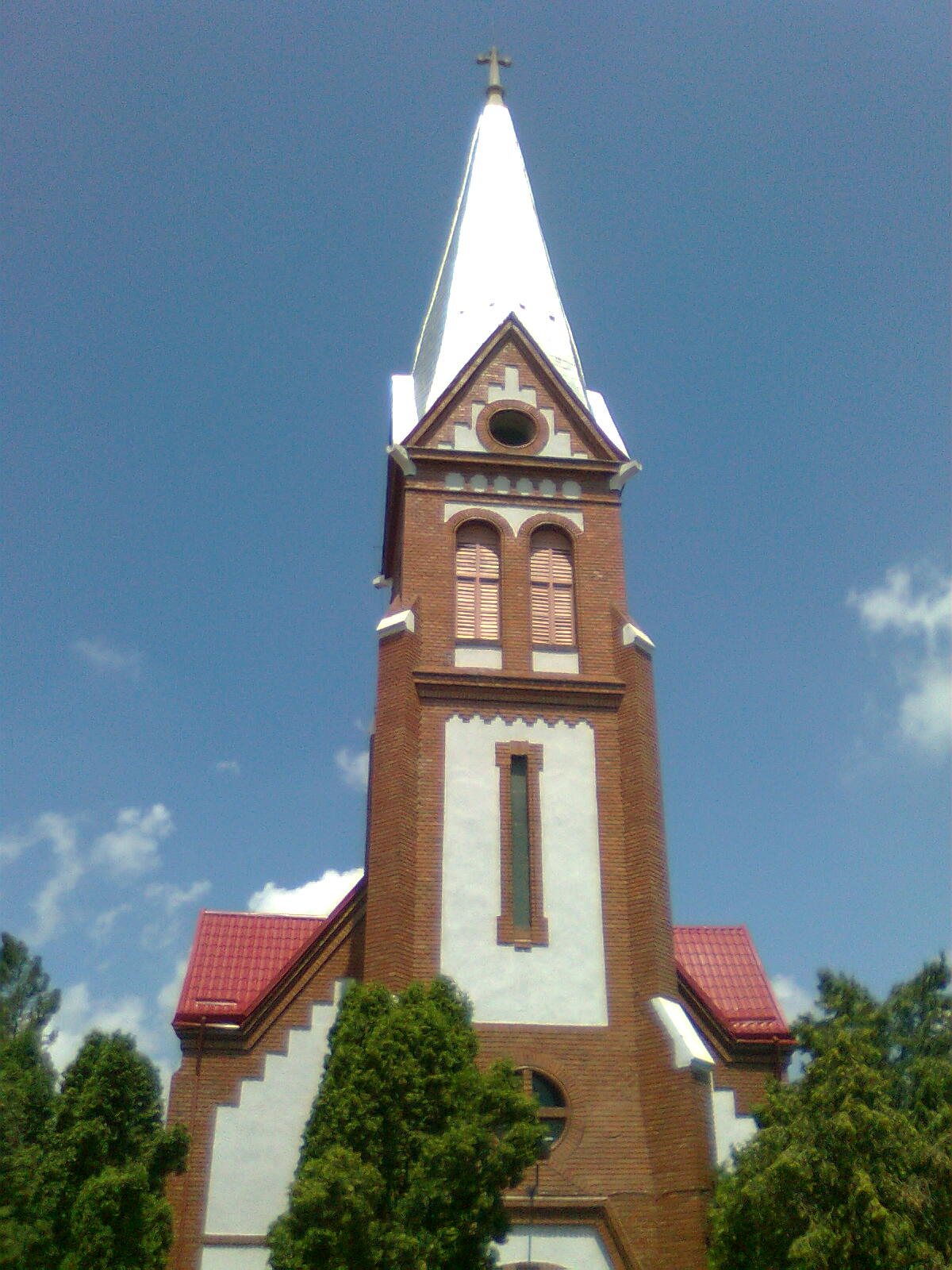 Catholic church in Marosludas (Luduș, Romania), built before 1919